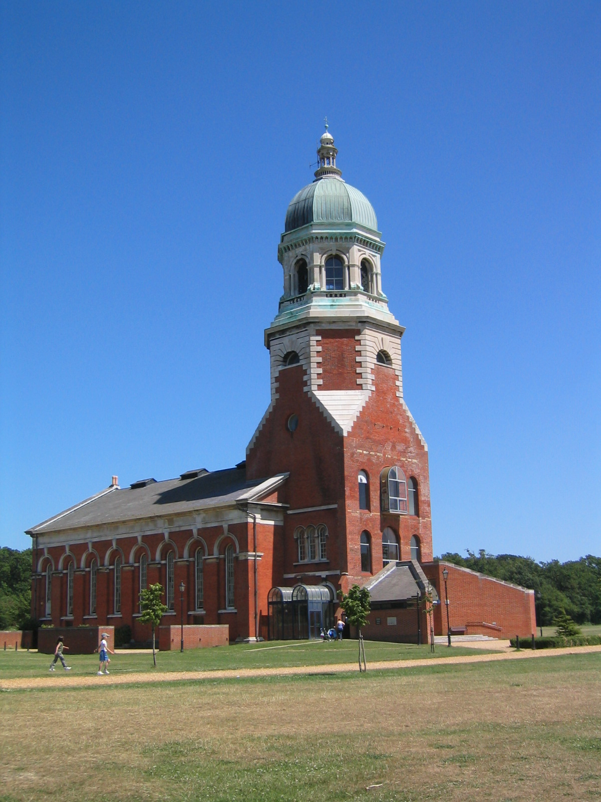 The chapel at the site of the old Netley Hospital, now the Royal Victoria Country Park, Netley, Hampshire, England. Photo taken by me 2003-06-20.